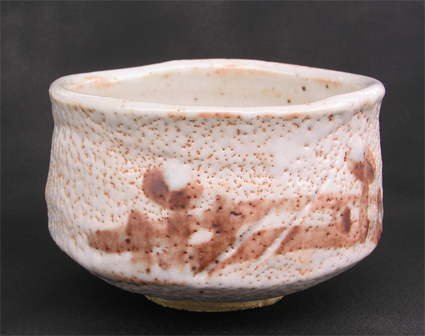 Shino tea bowl - chawan. Higushi Tozo.